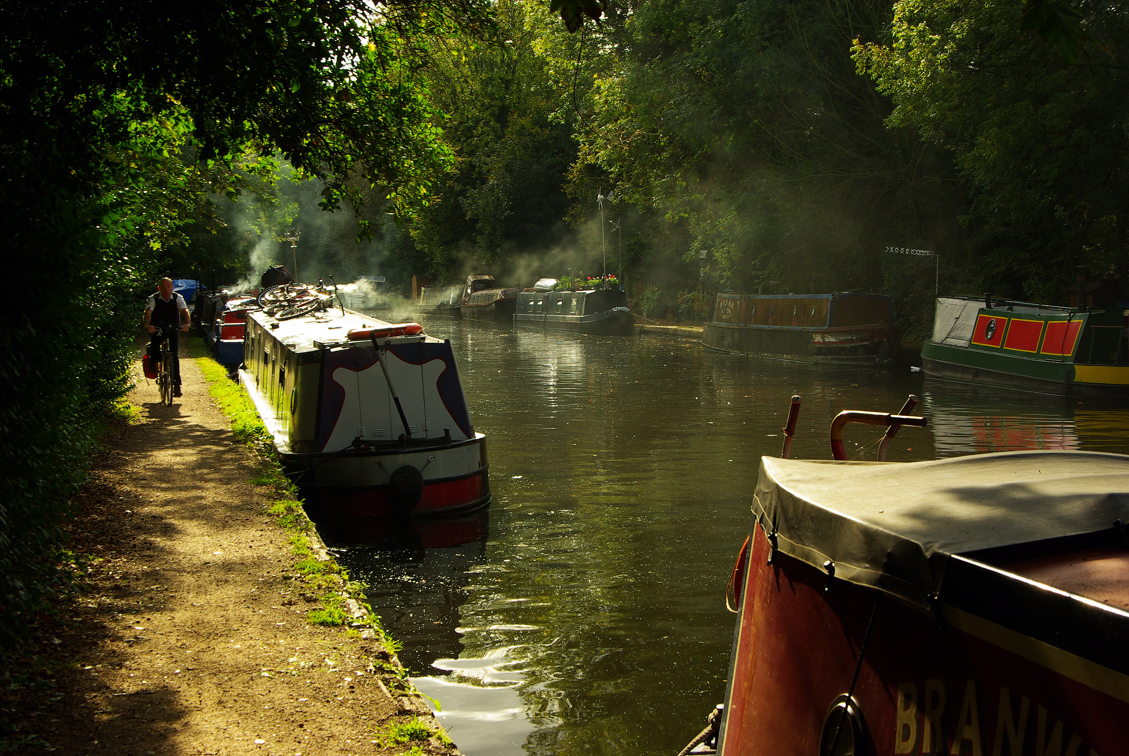 Autumnal scene, Grand Union Canal